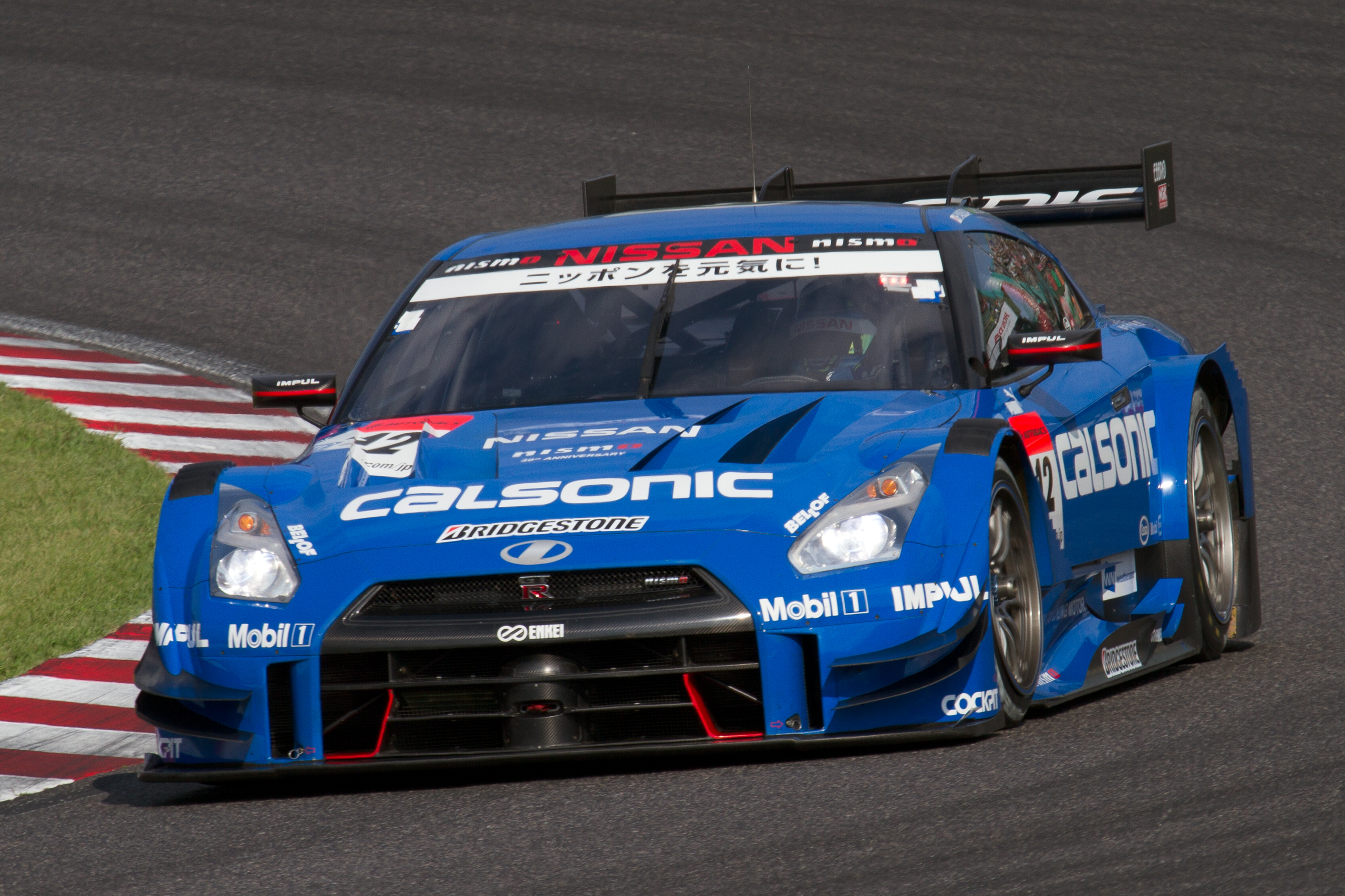 Super GT 2014 Rd.6 Suzuka 1000km: Hironobu Yasuda (Impul)